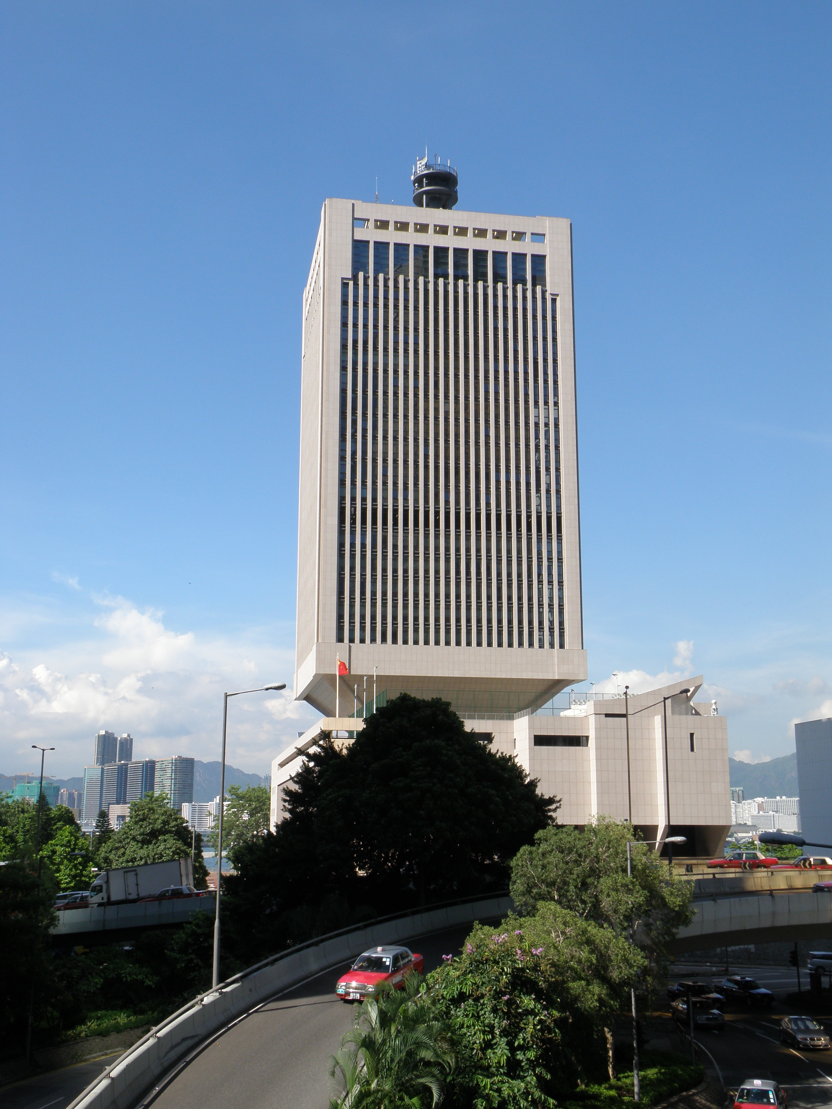 Chinese People's Liberation Army Forces Hong Kong Building after exposed wall renovation in Admiralty, Hong Kong.